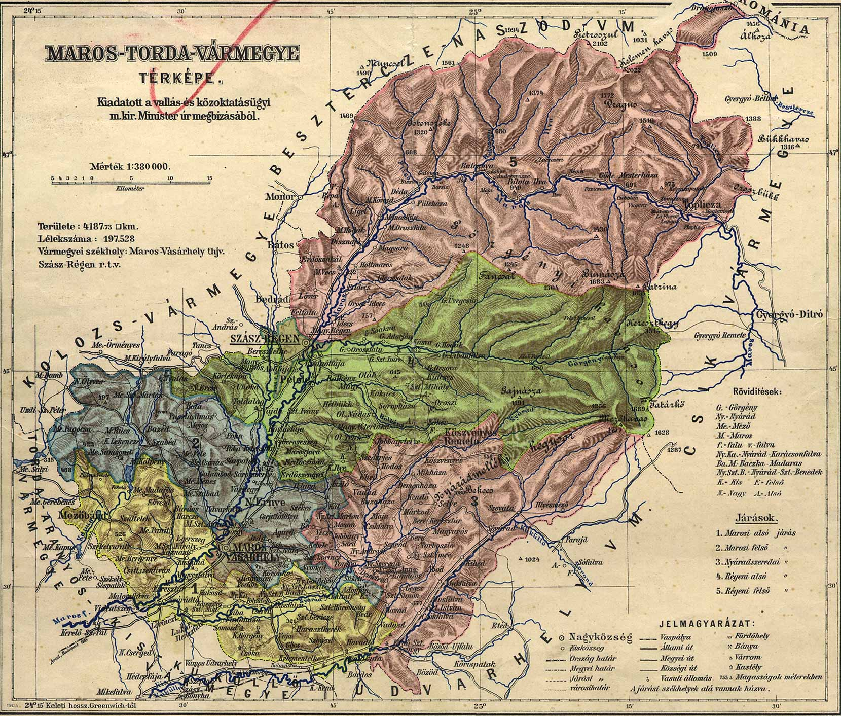 Maros-Torda county of Kingdom of Hungary Category:Hungary historical county maps It is likely that this image qualifies as based on creation date of 1904 (marked in lower left corner). — Laura Scudder ☎ 20:30, 27 April 2006 (UTC)